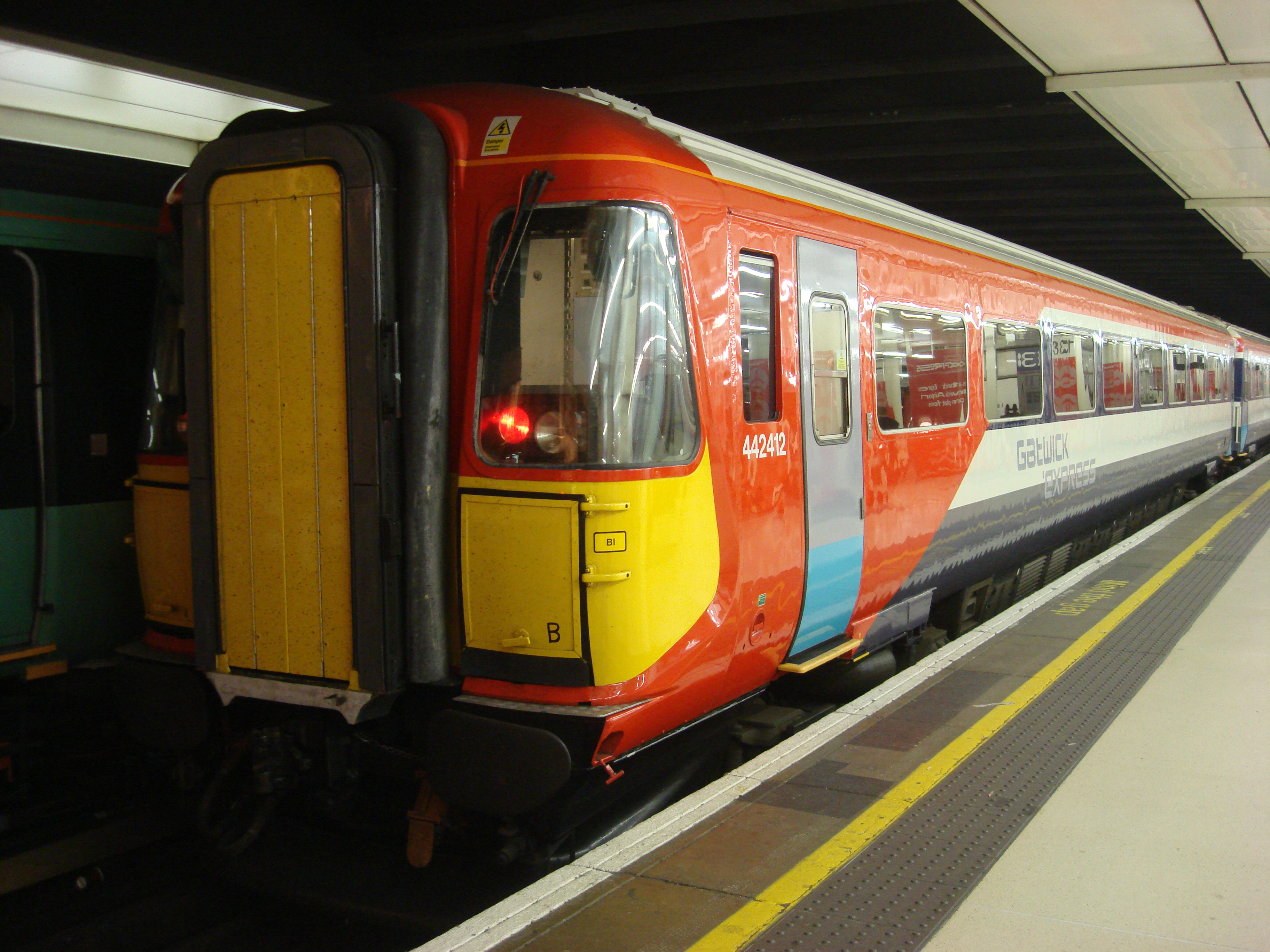 442412 at Victoria